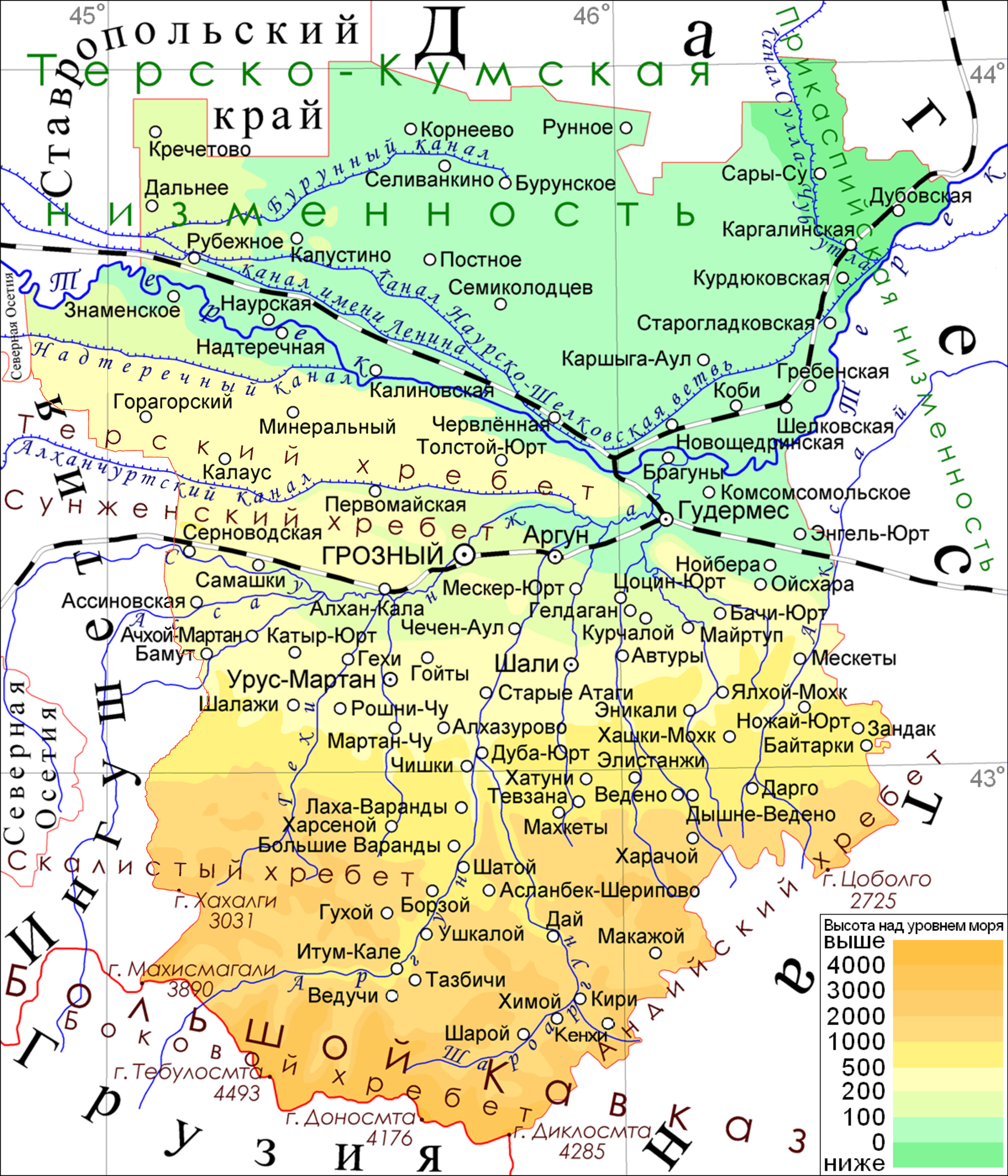 Physical map of Chechnya (Russian)